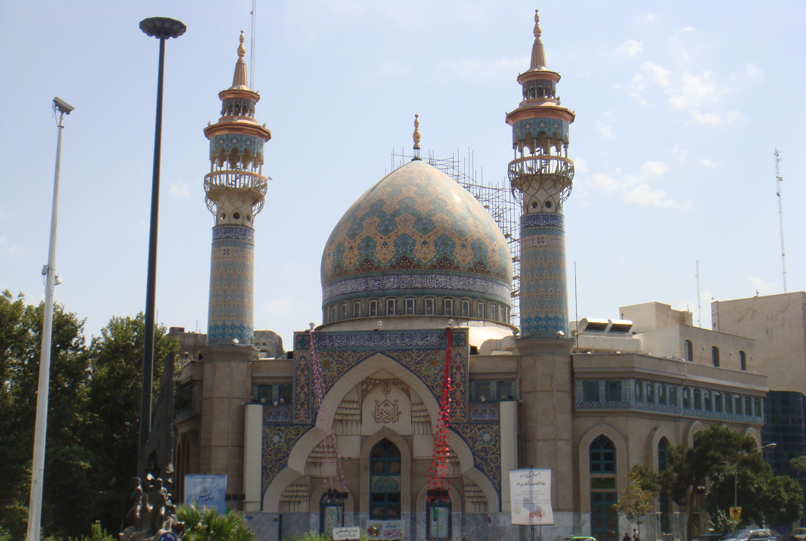 Mosque at Palestinian square in Tehran, 2011